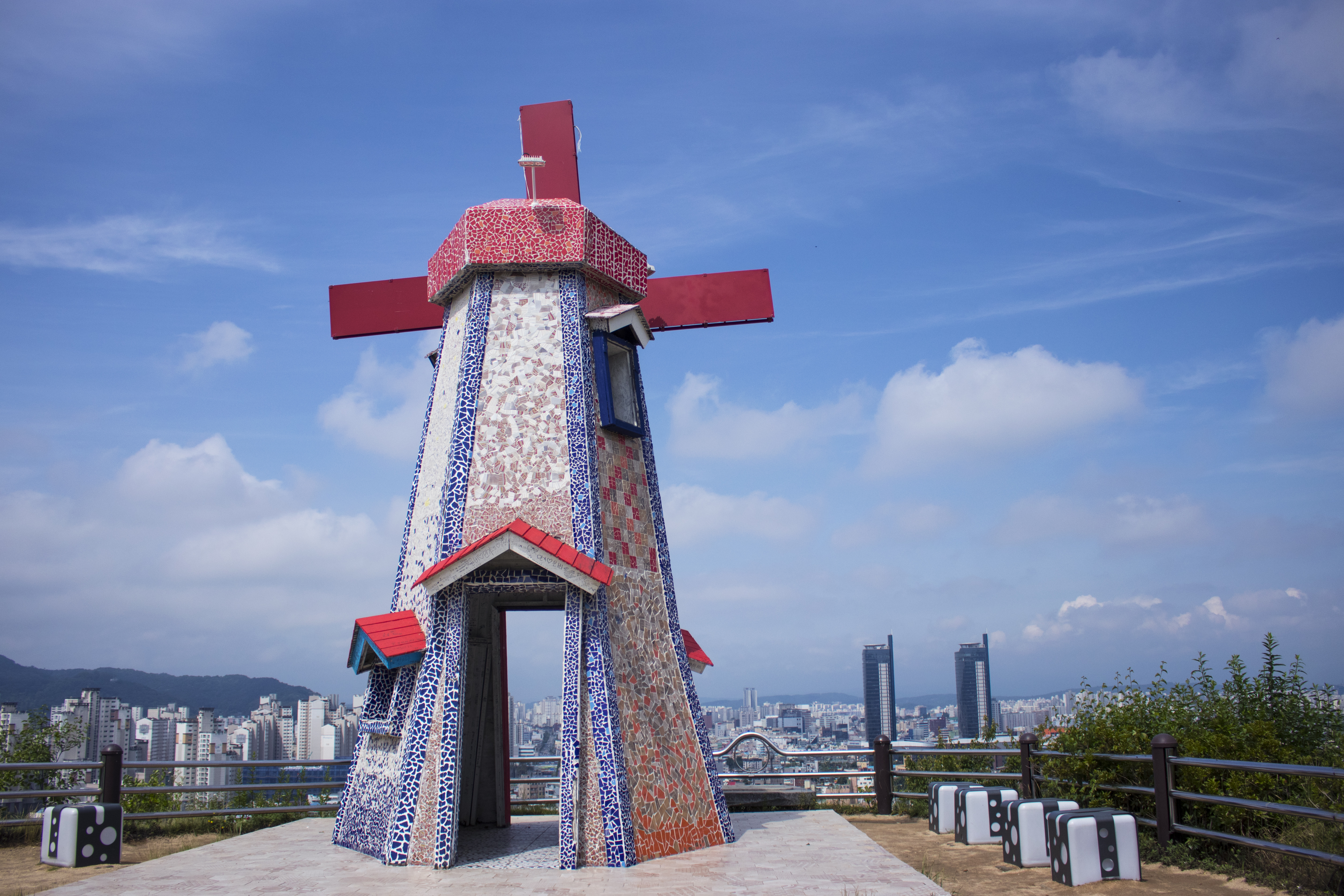 Windmill sculpture at Daedong Sky Park, Daejeon, South Korea